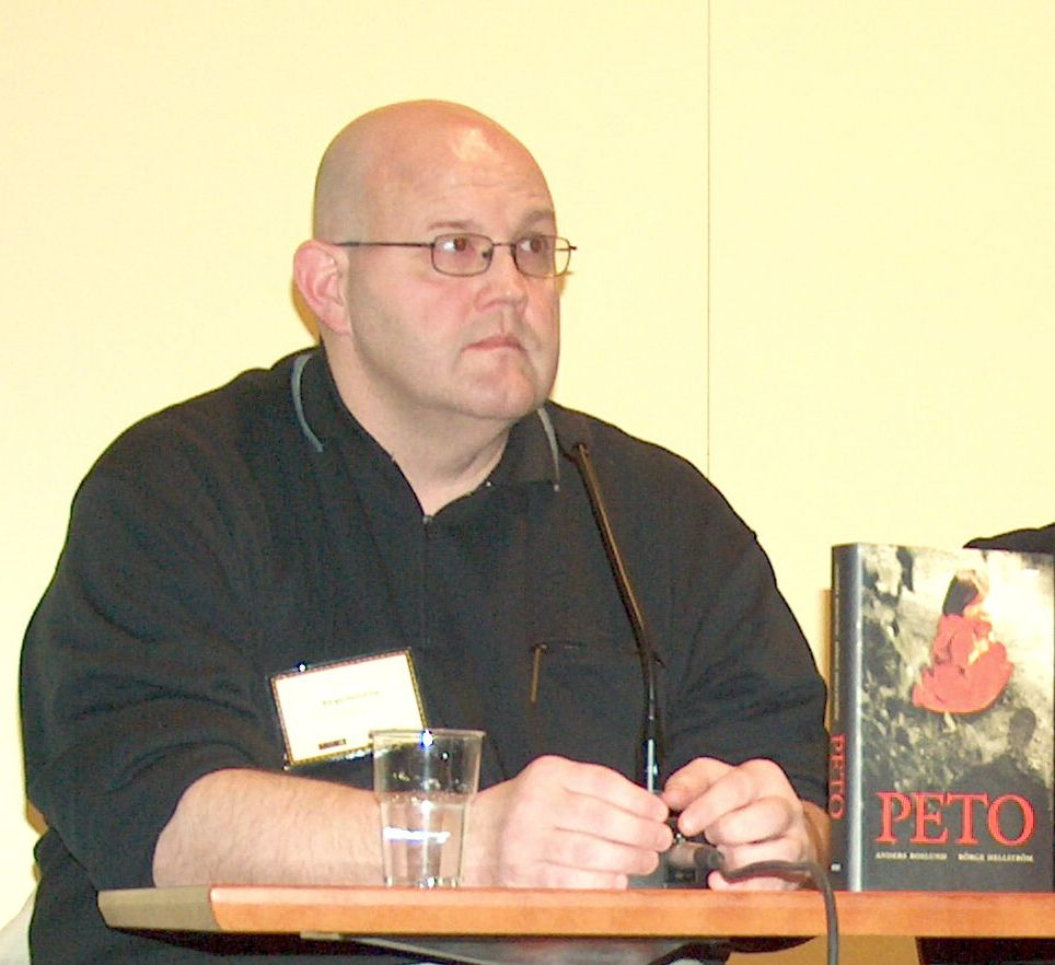 Börge Hellström, Swedish writer, at the Helsinki Book Fair in 2004